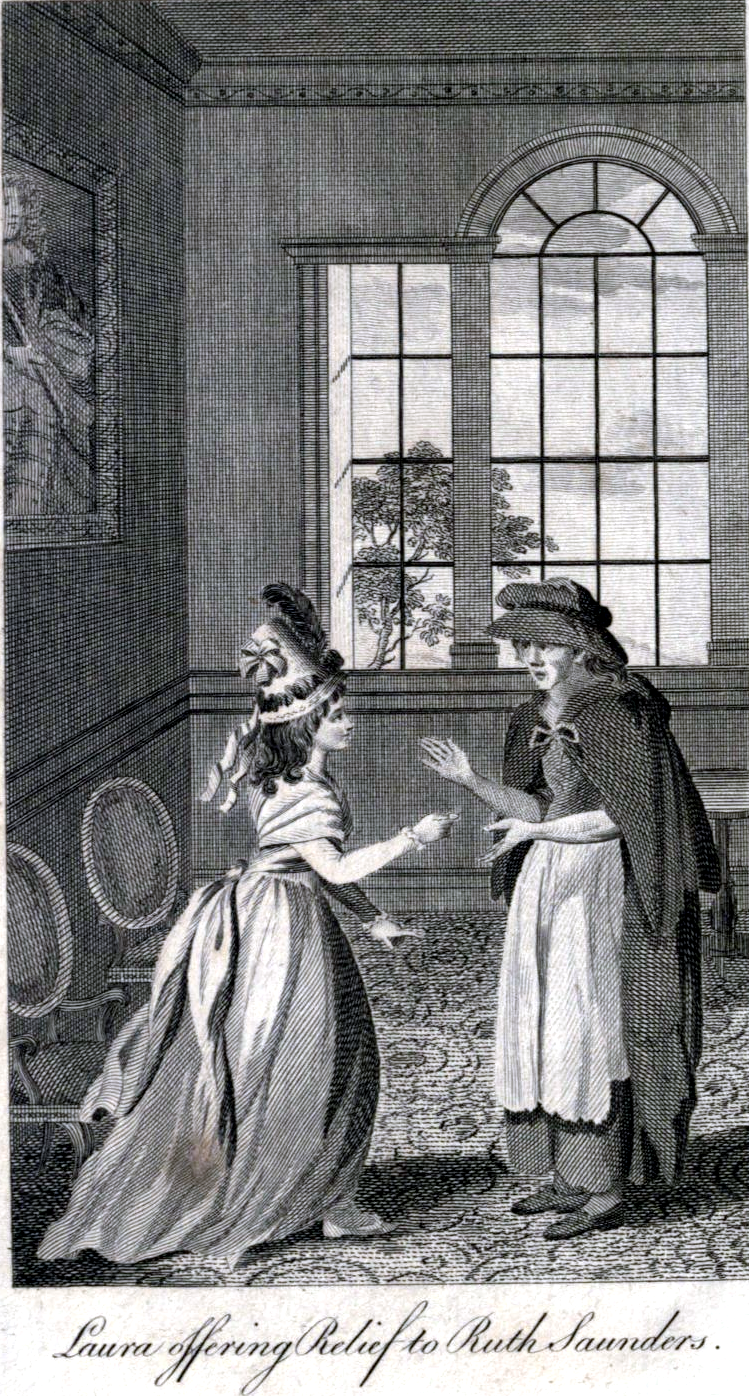 Girl from gentry family gives money to a poor widow